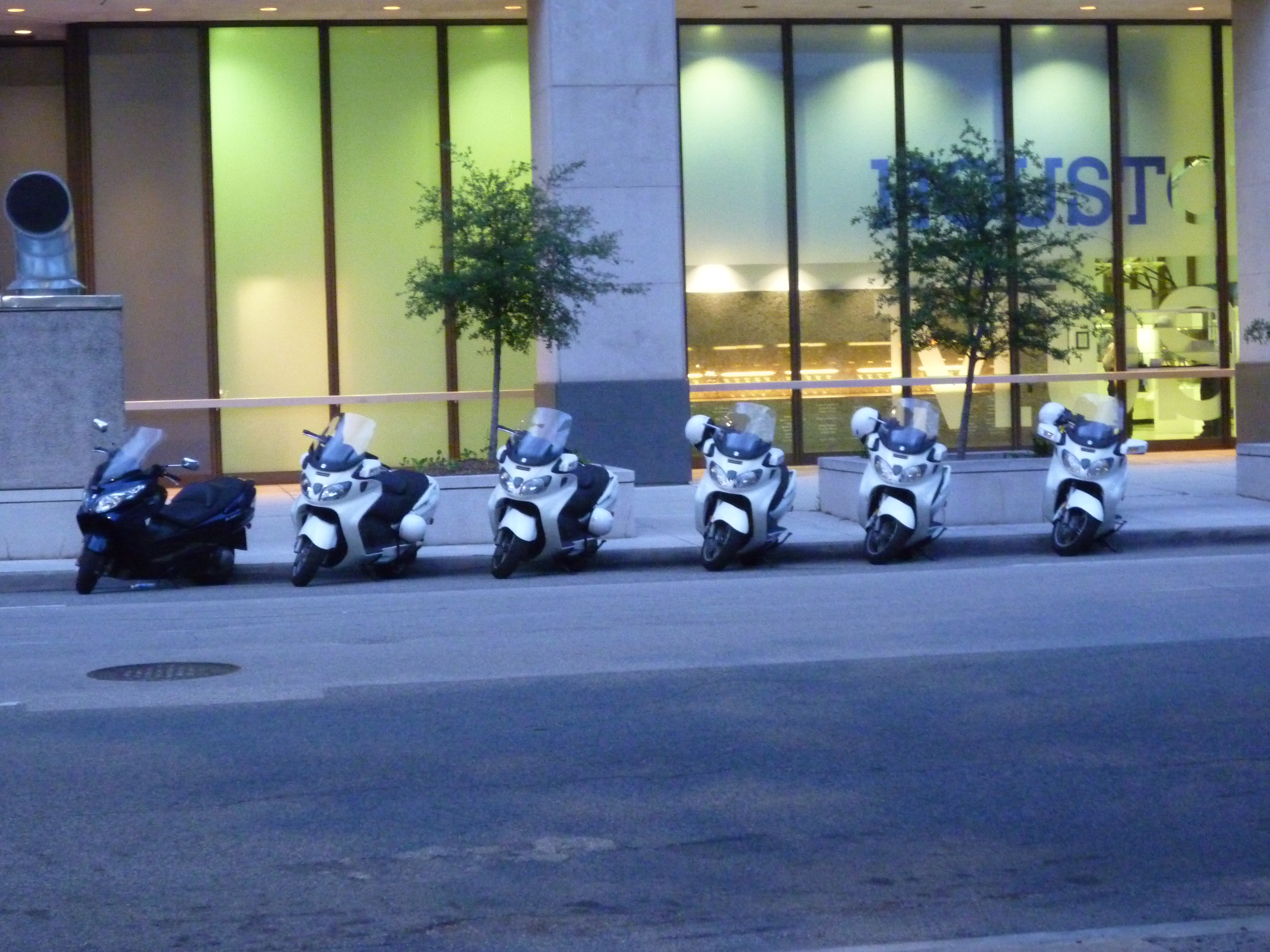 Mobility Response Team scooters outside of 1200 travis